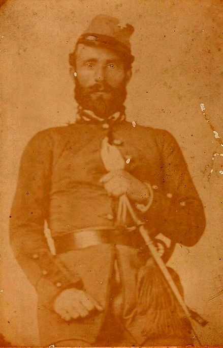 Charles Theodor Willrich (1829-1906), Confederate soldier from La Grange, Texas